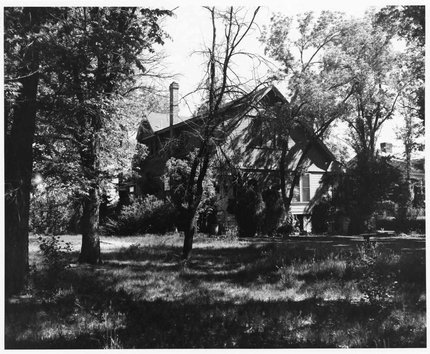 The Francis G. Newlands Home — located in Reno, Washoe County, Nevada. Adjacent to the landmark 1911 Hawkins House. The 1890 Victorian style building is a National Historic Landmark, and is on the National Register of Historic Places in Washoe County, Nevada.